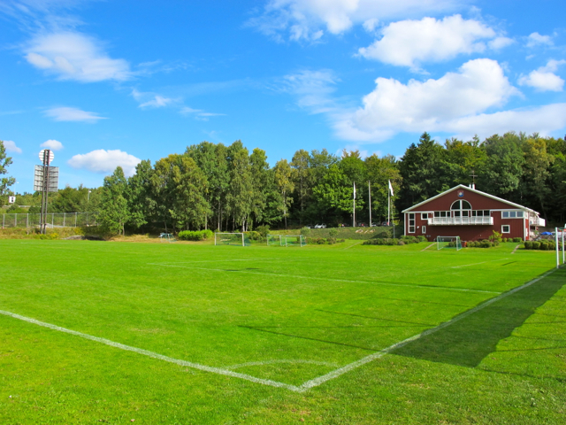 Öisgården, the club house of Örgryte IS with training ground, Kallebäck, Göteborg